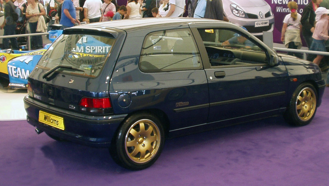 Renault Clio Williams on display at the Renault stand at the 2006 World Series by Renault, Donington Park, UK.